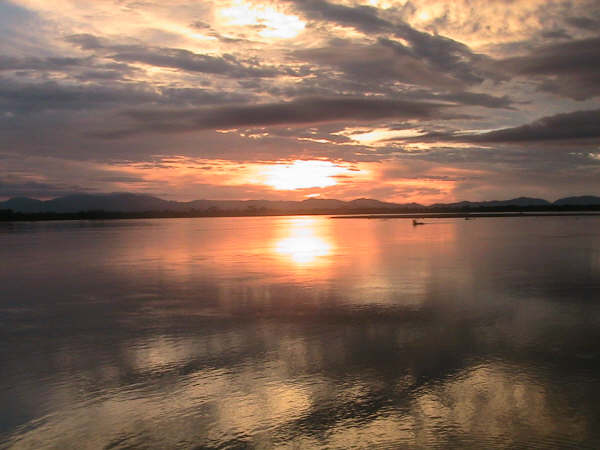 taken by user User:Jesusantonio